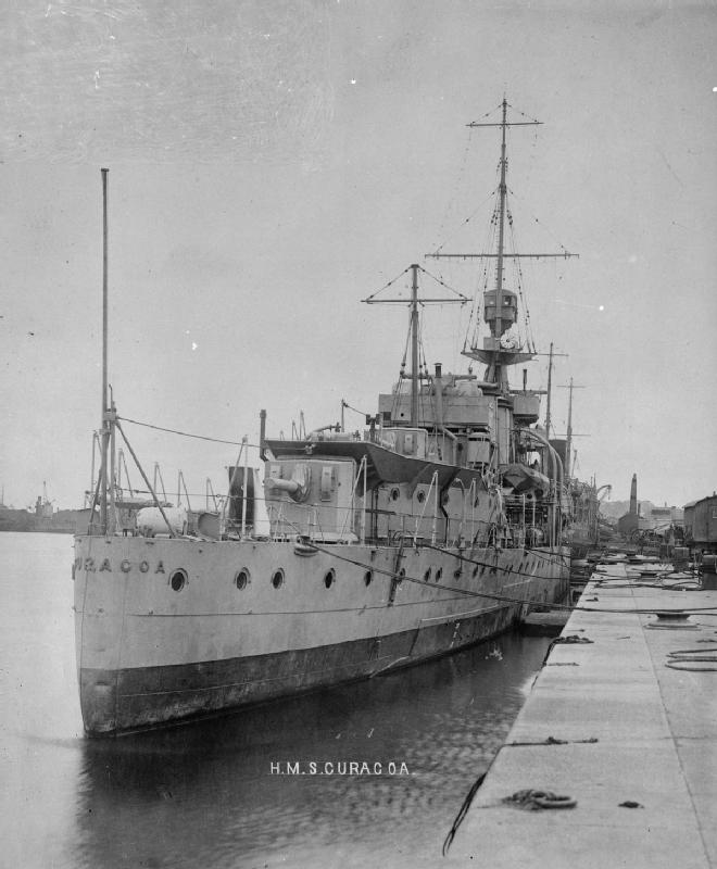 Stern view of British light cruiser HMS Curacoa, showing aft 6-inch gun.